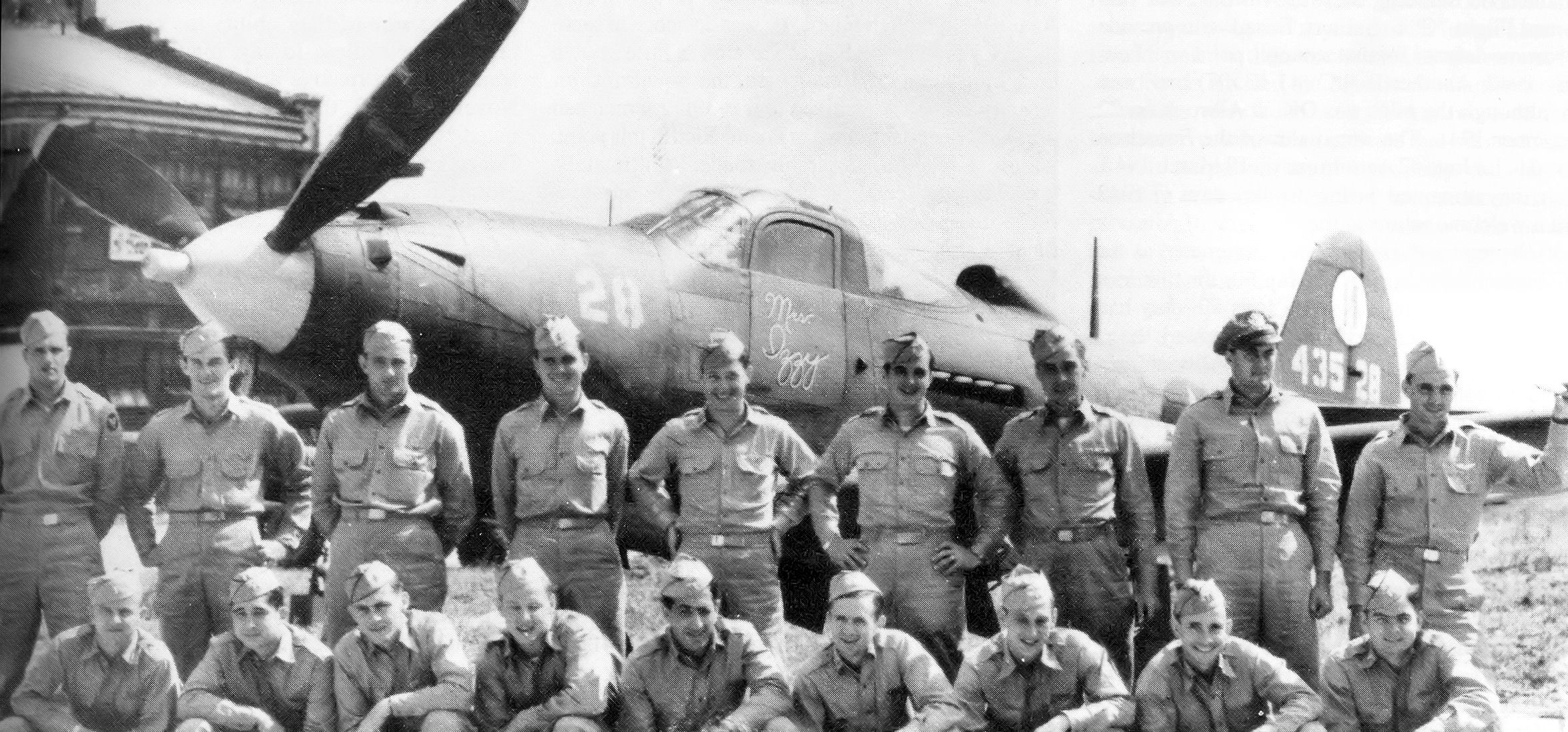 24th Fighter Squadron Bell P-39Q-20-BE Airacobra 44-3528 "Miss Izzy", France Field, Panama with squadron personnel.